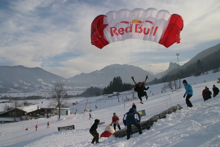 EC Paraski Unterammergau winner Toni Gruber